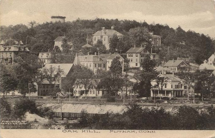 Postcard depicting Oak Hill in Putnam, mailed 1911. Store Web page states: "postcard showing a view of Oak Hill in Putnam, Connecticut. Mailed in 1911. Publ. by Jeweler Shaw." In lower lefthand corner: "Published by Jeweler Shaw"